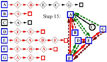 Dry run Depth-first search Algorithm in Graph, step 15